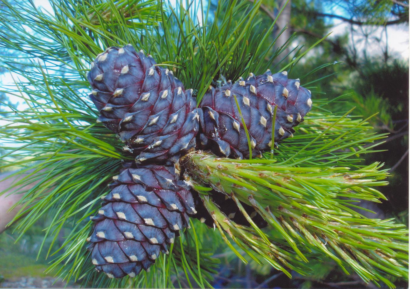 Pinus sibirica foliage and cones, Ural Mountains